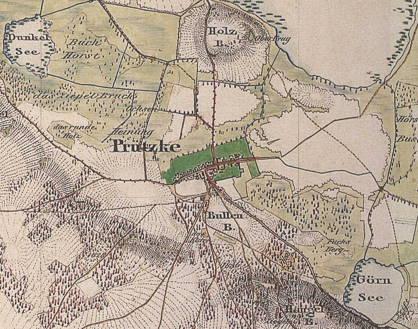 Prützke, Gem. Kloster Lehnin, Lkr. Potsdam-Mittelmark, Brandenburg, Germany, Detail from the Urmesstischblatt Sheet 3641 Göttin, drawn in 1842